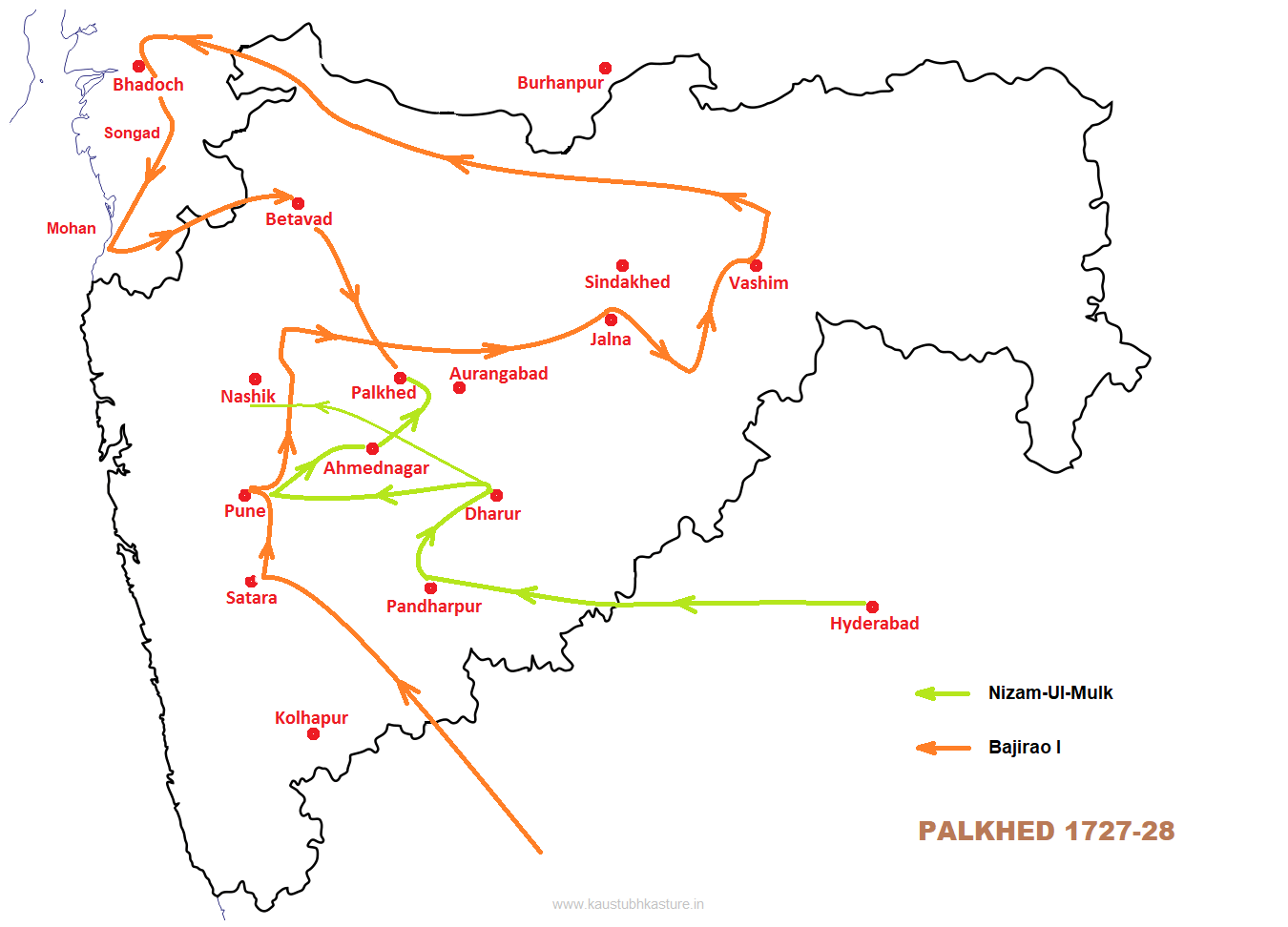 This is the image of comparative movements of Peshwa Bajirao vs Nizam-ul-Mulk of Palkhed Campaign